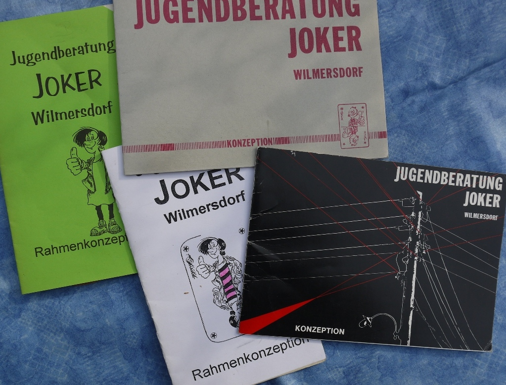 ideas 1985-2000